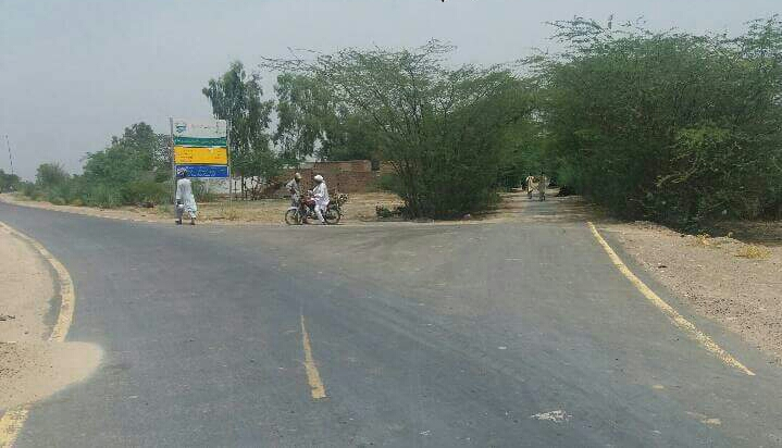 I also Uploaded this Photo on Botala Facebook Page & on website